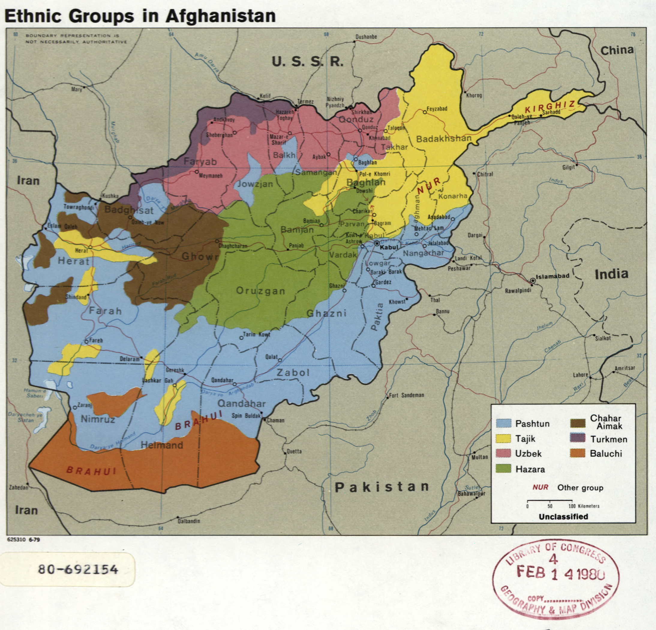 1979 Afghanistan Ethnic Groups